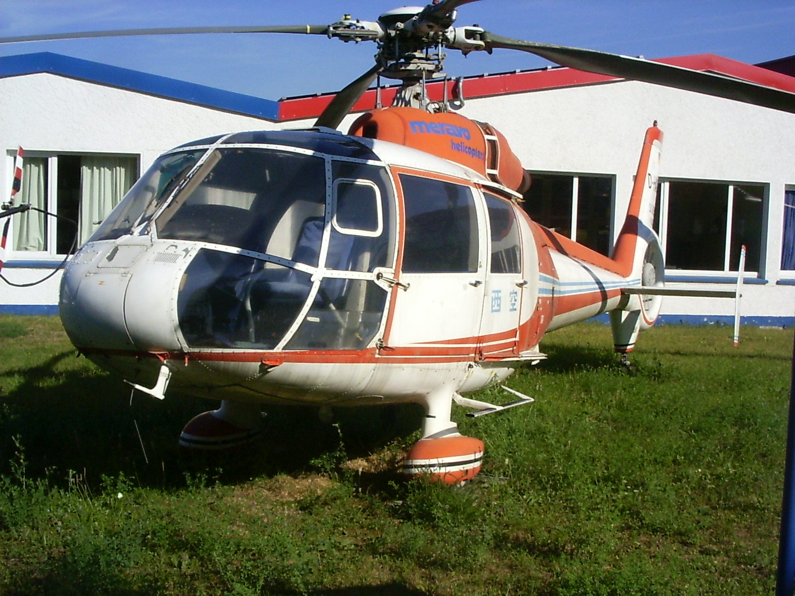 An Eurocopter SA 360 C exhibited at Meravo. Serial number 1022. Built by Aerospatiale in 1981 as part of a series of 36 from the years 1975-1981. One drive-shaft Astazou XVIII turbine engine. 1050 horsepower. 310 km/h. Range 680 km. Net weight 1550 kg. Maximum startweight 3050 km. 9 passengers. Another helicopter of this type (D-HAUL) set the speed record for helicopters to 312 km/h in 1972. The 1022 was used for passenger transport in Japan until 1996, in 1997 it came to Meravo as D-HAUS, where it was used for passenger and cargo transport as well as work flights. Its active life ended in 2009.